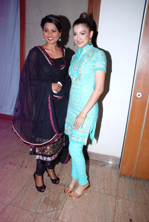 Sisters Nigaar Khan (l) and Gauhar Khan (r) at Suraj Godambe's sangeet party. The sisters are Indian television and film actresses.